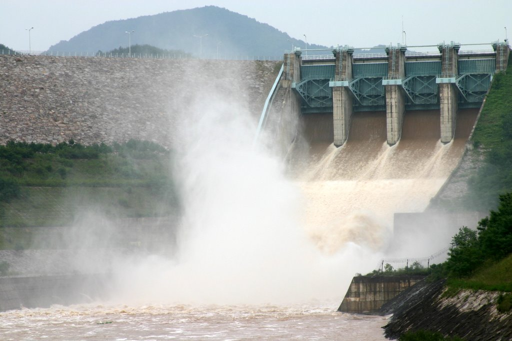 A scenery of Andong City Gyeongsangbuk-do, South Korea on May 26, 2007.